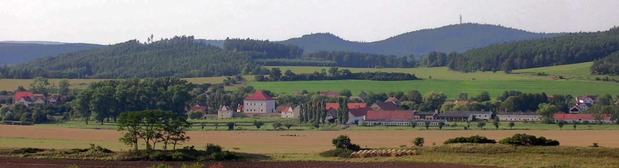 Křepenice, Příbram District, Central Bohemian Region, the Czech Republic. - Google Maps - Google Earth